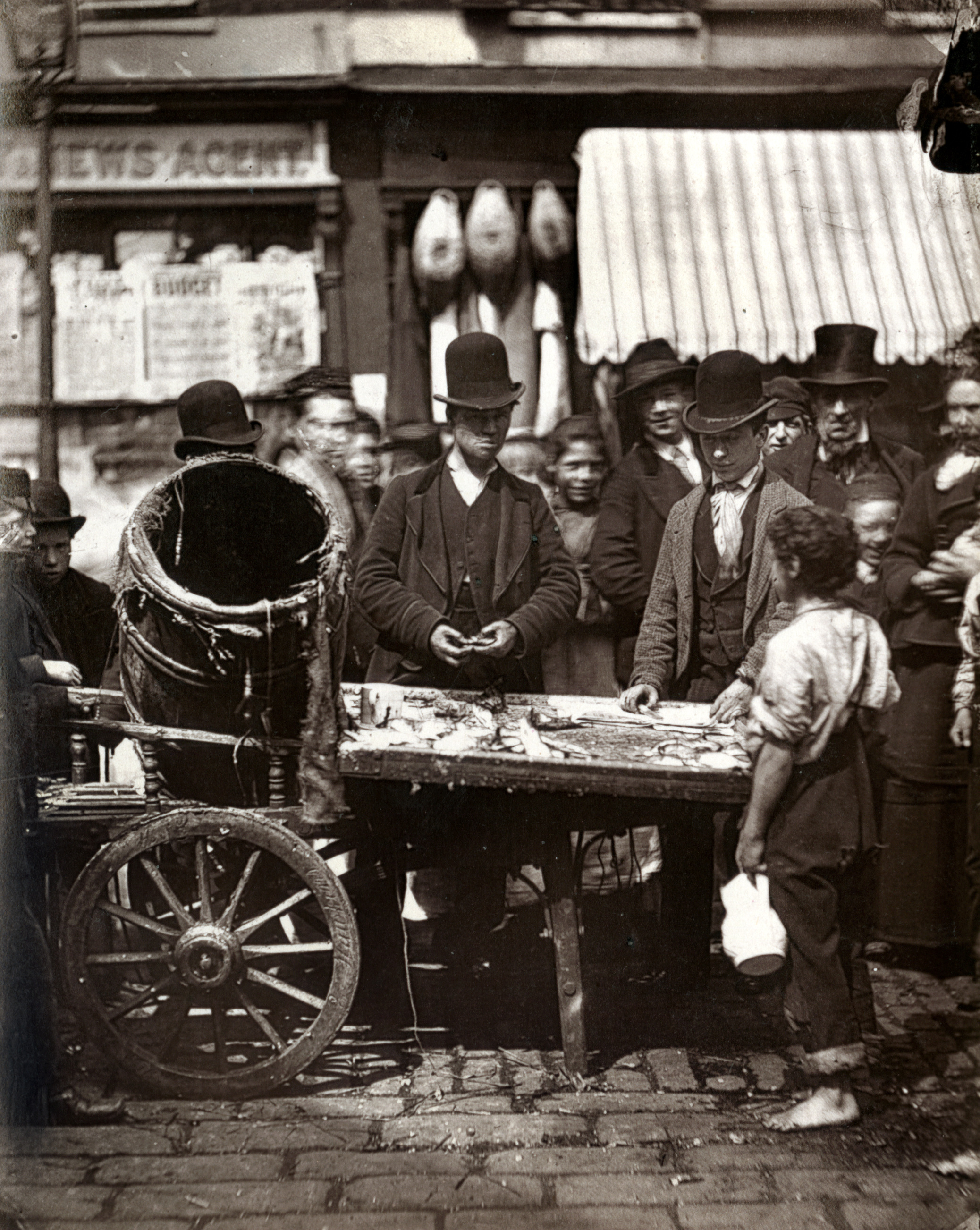 From 'Street Life in London', 1877, by John Thomson and Adolphe Smith: "Awaiting the moment when the costermonger is able to procure a barrow of his own he must pay eighteen pence per week for the cost of hiring. Then he must beware of the police, who have a knack of confiscating these barrows, on the pretext that they obstruct the thoroughfare and of placing them in what is termed the Green Yard, where no less than a shilling per day is charged for the room the barrow is supposed to occupy. At the same time, its owner will probably be fined from half a crown to ten shillings so that altogether it is much safer to secure a good place in a crowded street market. In this respect, Joseph Carney, the costermonger, whose portrait is before the reader, has been most fortunate. He stands regularly in the street market that stretches between Seven Dials and what is called Five Dials, making his pitch by a well-known newsagent's, whose shop serves as a landmark. Like the majority of his class, he does not always sell fish, but only when the wind is propitious and it can be bought cheaply. On the day when the photograph was taken, he had succeeded in buying a barrel of five hundred fresh herrings for twenty five shillings. Out of these he selected about two hundred of the largest fish, which he sold at a penny each, while he disposed of the smaller herrings at a halfpenny. "Trade was brisk at that moment, though the fish is sometimes much cheaper. Indeed, I have seen fresh herrings sold at five a penny; and this is all the more fortunate, as notwithstanding the small cost, they are, with the exception of good salmon, about the most nutritious fish in the market." For the full story, and other photographs and commentaries, follow this link and click through to the PDF file at the bottom of the description